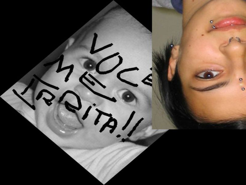 Jealous among brothers, photo mounting by the uploader, own work